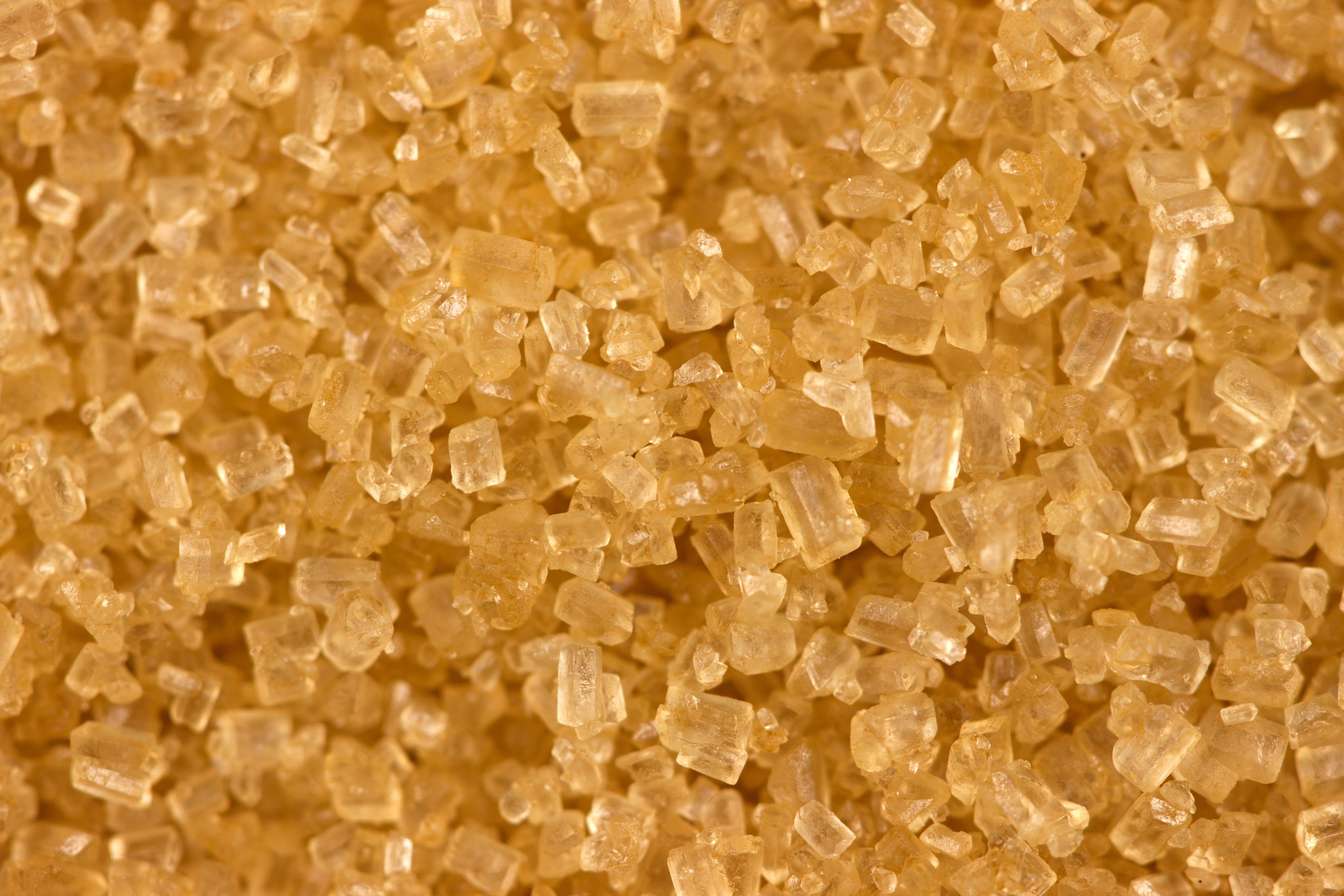 A plane patch of demerara sugar crystals